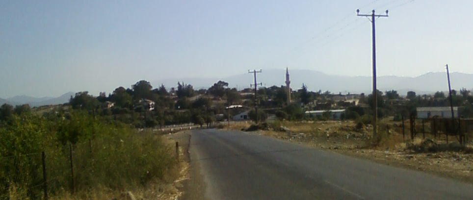 A view of the village of Angolemi in Cyprus.